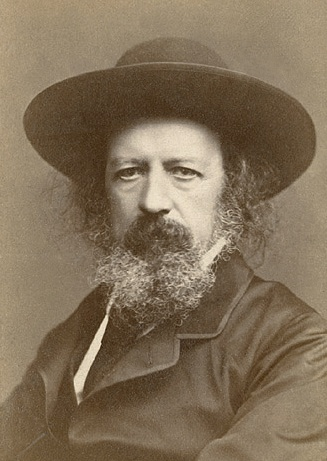 Alfred Lord Tennyson, autographed portrait by Elliott & Fry